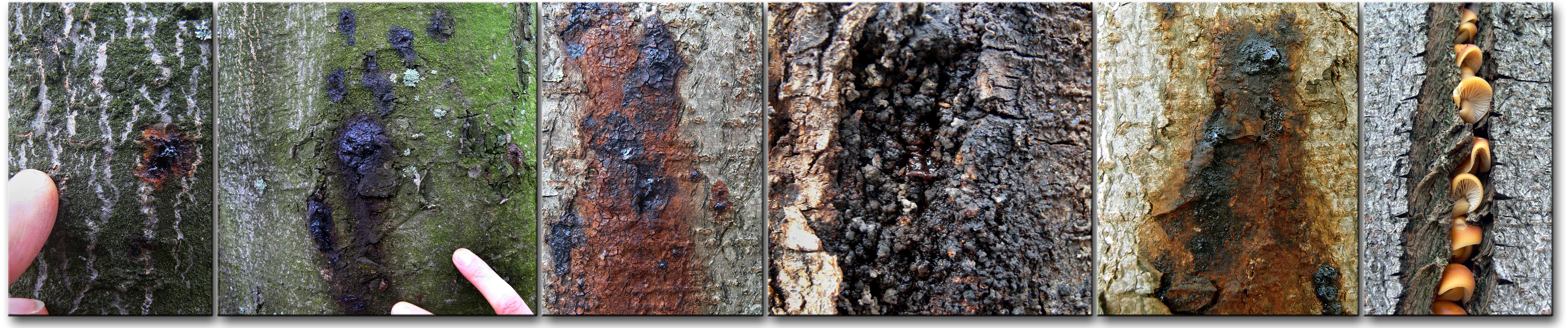 horse-chestnust killed by a bacteria (Pseudomonas syringae)